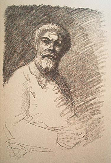 French poet, novelist and dramatist Jean Richepin (1848-1926) by Théophile Alexandre Steinlen (1859-1923)